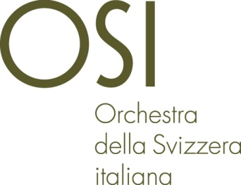 Logo of the Orchestra della Svizzera italiana